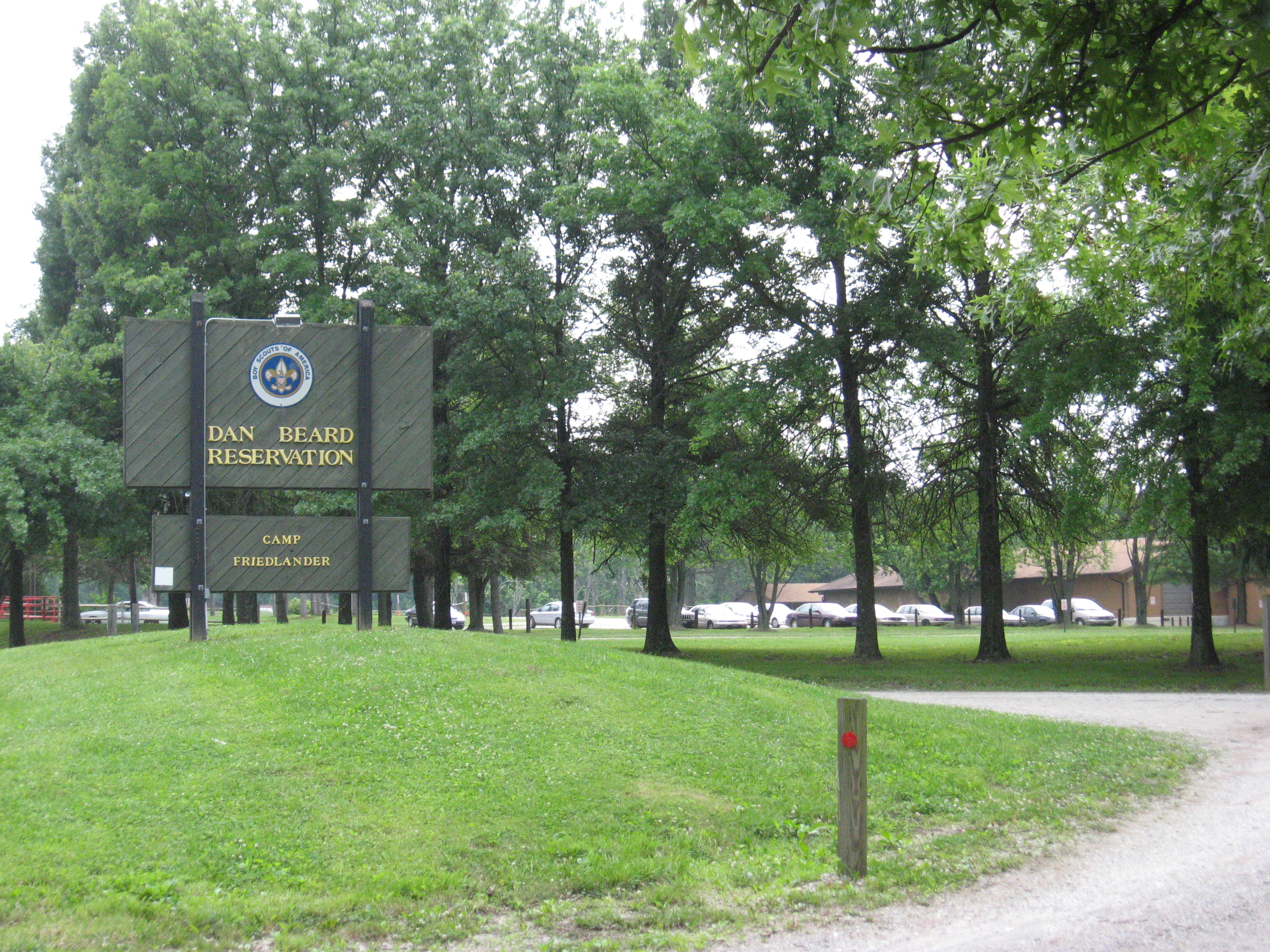 Dan Beard Scout Reservation (Miamiville, Ohio, USA)